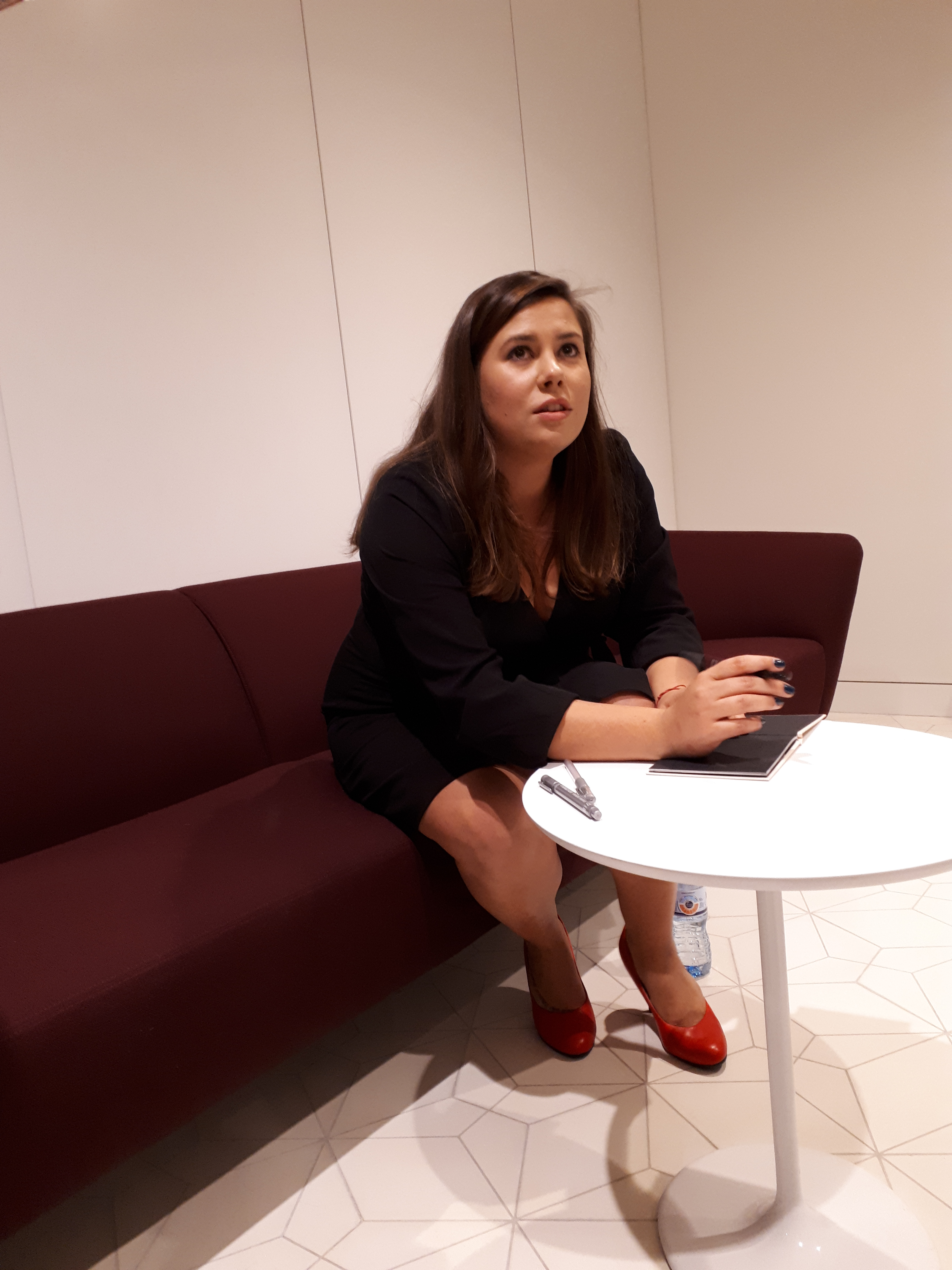 Monika Borzym after her concert in Szczecin.